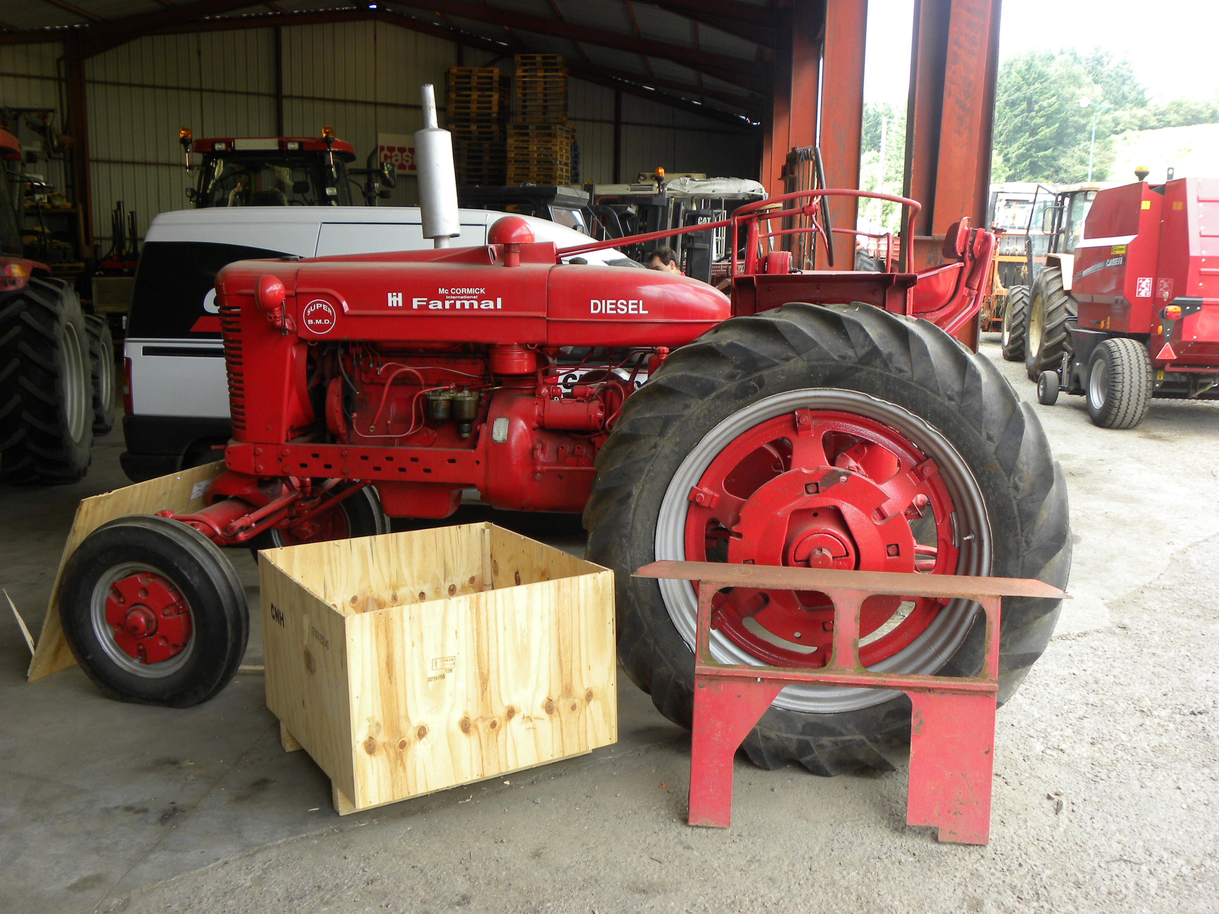 McCormick International Farmal(l) super B.M.D. tractor